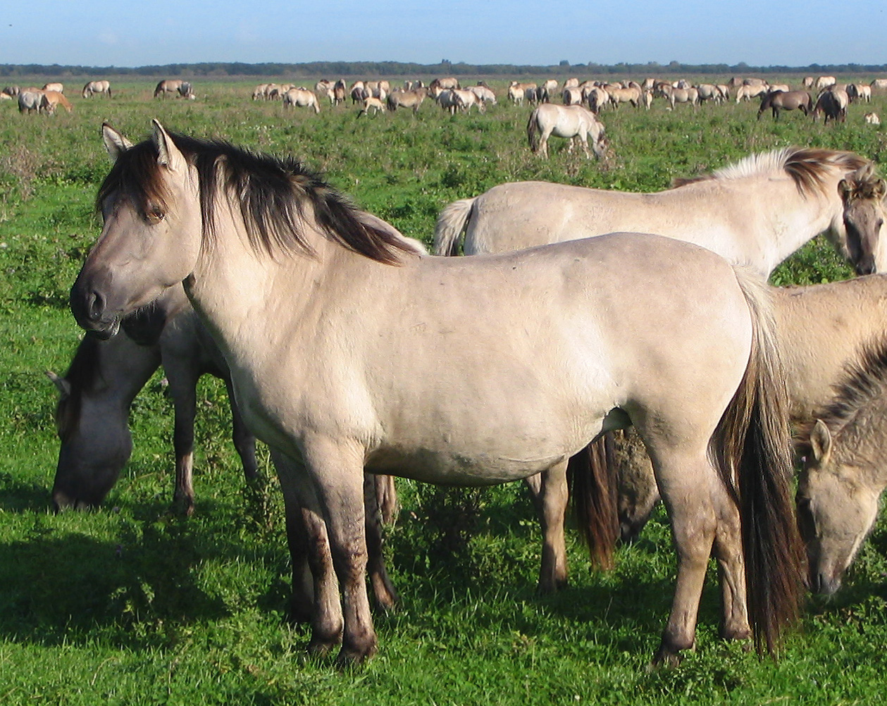 A cropped and photoshopped version of Image:Koniks3.JPG